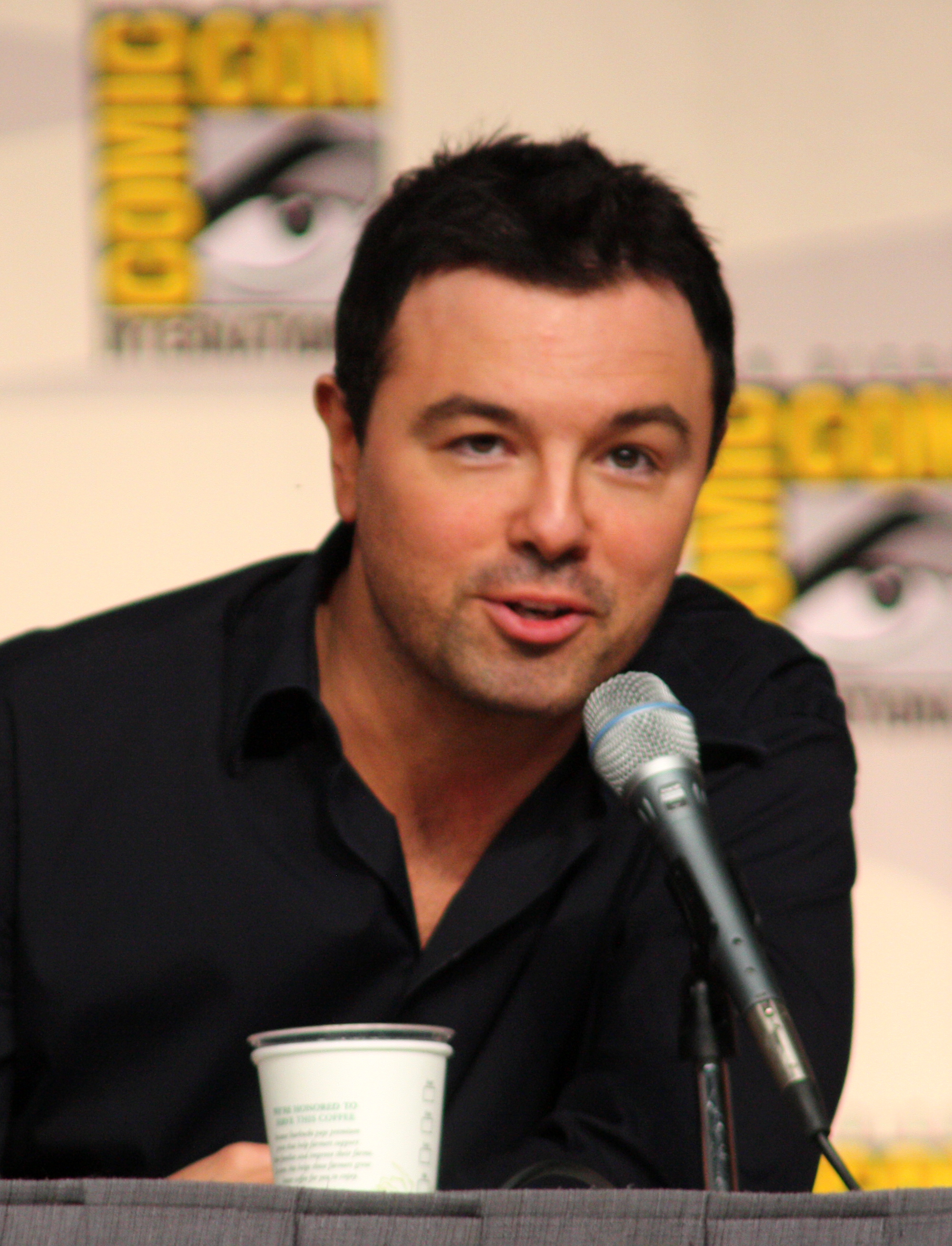 Seth MacFarlane at the 2009 Comic Con in San Diego